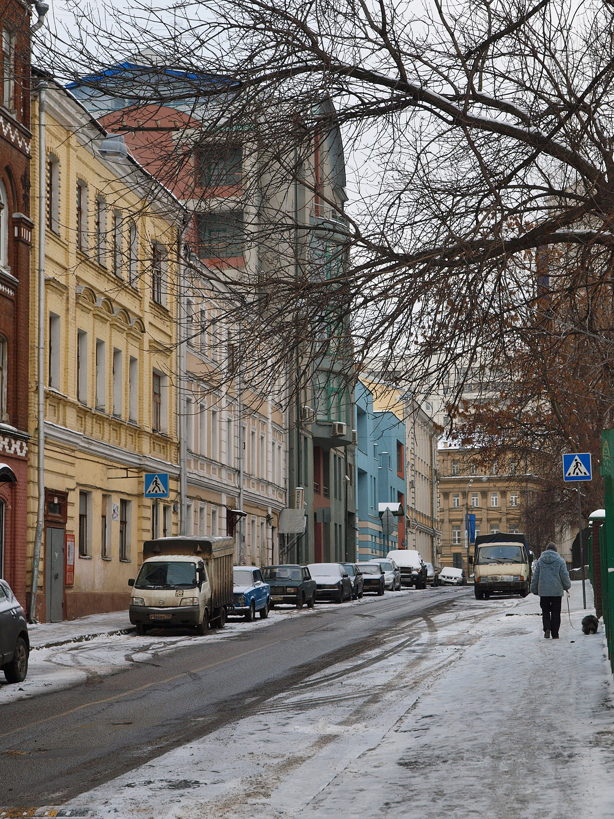 Moscow. New Year in Trubnaya Street.